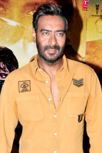 Ajay Devgn snapped at the promotions of his film ‘Baadshaho’ in Mumbai on (24 August 2017).